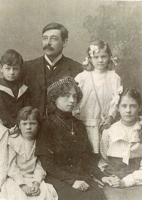 Пётр Юльевич Зубов (1871—1942) (земский начальник, товарищ головы города Вологды (1918), член Временного правительства Северной области (1918—1920), актёр провинциальных театров) с детьми и женой